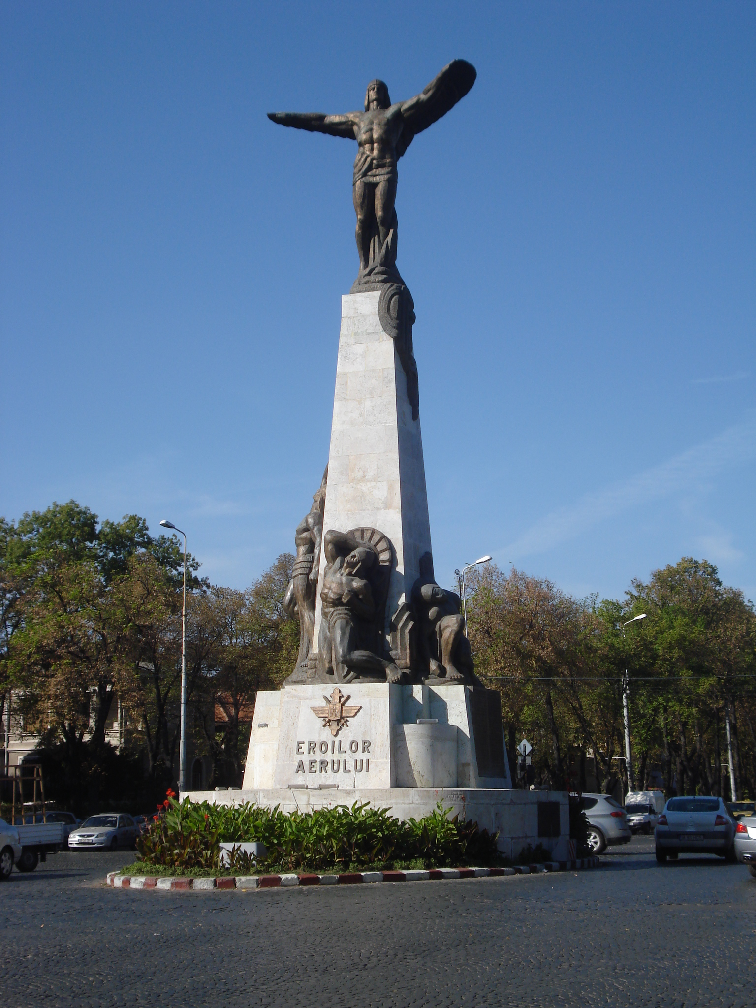 Uploaded to ro.wiki by Pixi, to en.wiki by me.